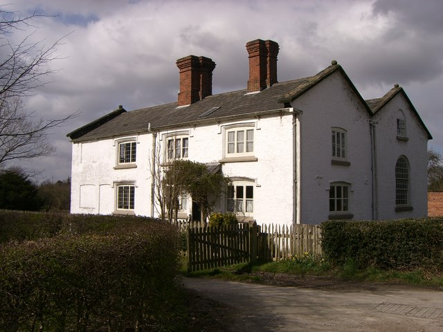 Apprentice House, Quarry Bank Mill The Apprentice House and gardens were the home for the Victorian mill apprentices, aged from 9 years. These children were recruited from local workhouses and in general were treated fairly compared to other such places at the time. Approximately 100 were housed at any one time.